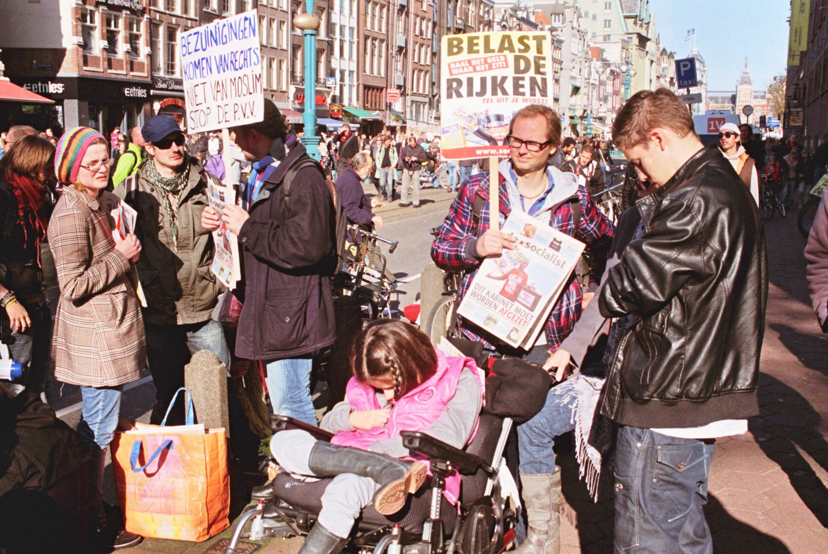 Occupy Amsterdam protests at the Beursplein, Amsterdam, the Netherlands.